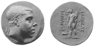 Pharnaces I of Pontus, 185? - 169. Son of Mithridates III. ΒΑΣΙΛΕΩΣ ΑΡΝΑΚΟΥ Male figure (Pantheistic divinity ?), standing, facing, wearing spreading hat, chiton, chlamys and cothurni; holds cornucopiae, caduceus, and vine-branch, at which a doe beside him nibbles; in field, star in crescent AR Attic Tetradr.; Dr.